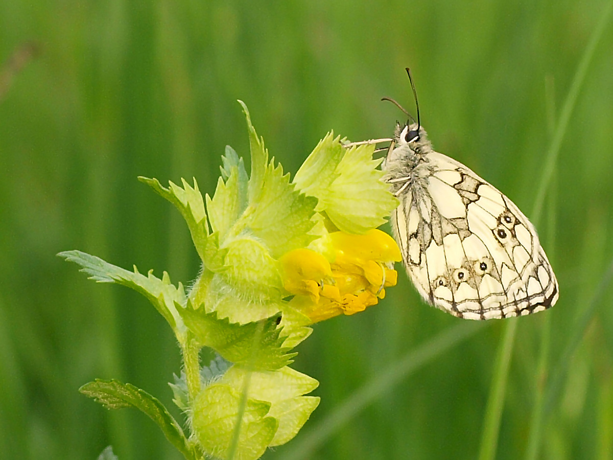 Melanargia galathea on Rhinanthus alectorolophus